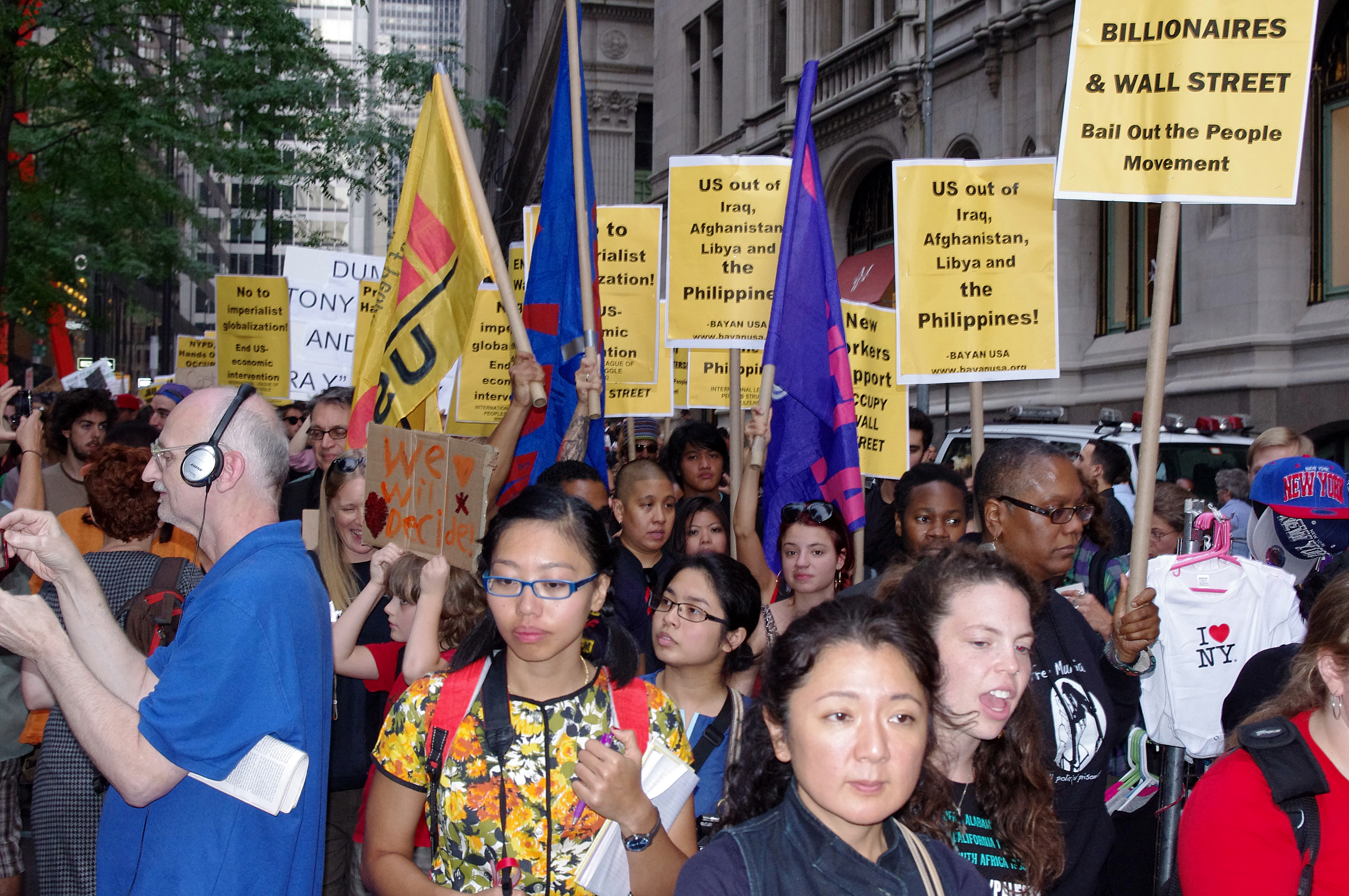 Friday, Day 14 of Occupy Wall Street - photos from the camp in Zuccotti Park and the march against police brutality, walking to One Police Plaza, headquarters of the NYPD.